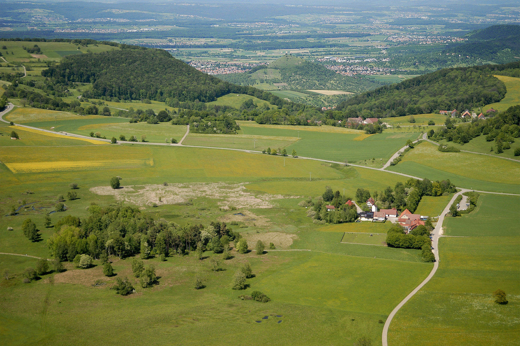 Aerial view, showing three landscape elements of totally diverting character: Schopflocher Moor, Randecker Maar, Limburg, Middle Swabian Alb and its foreland. However, all three are prominent remnants of Miocene volcanoes of the phreatomagmatic type, (Swabian volcano, "Schwäbischer Vulkan"), Baden-Württemberg, Germany), of which 356 were discovered so far. Intensive attempts of protection and recultivation of this raised bog, the only biotope of this kind found on the Swabian Alb, have been undertaken to compensate for the cutting of peat, which took place in 18th and 19th century. The not green colors around the grove - even in late springtime - show, there is some success. The fertile talus of the cone Limburg in the back, with its sedimented volcanic pipe underneath, is now covered with meadow orchards, vineyards, bushes and nut trees.